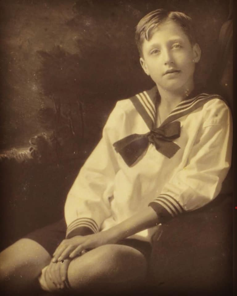 Prince Luiz Gastão of Orléans-Braganza